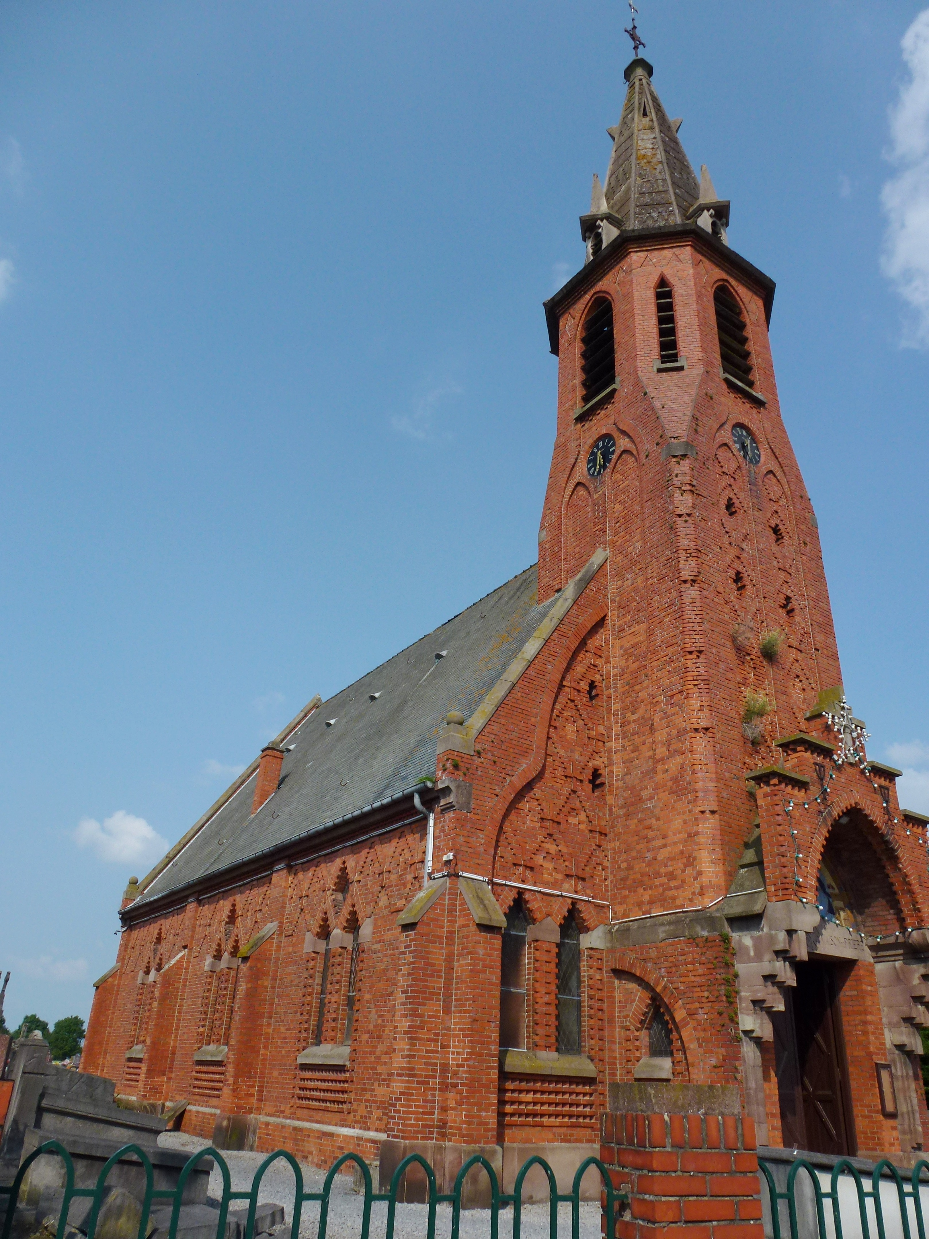 Thun-Saint-Amand (Nord, Fr) église Saint-Éloi